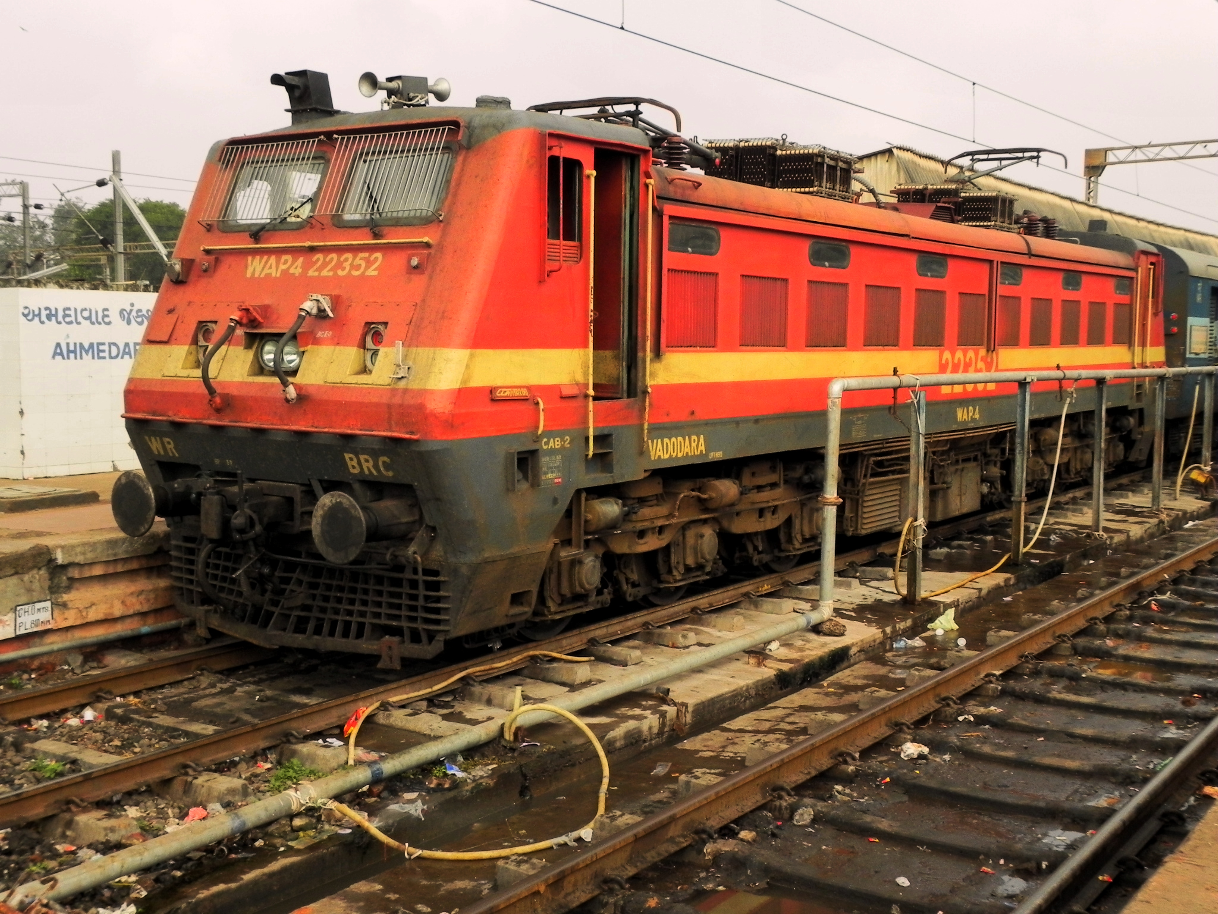 BRC based WAP-4E loco - 22352 at Ahmedabad